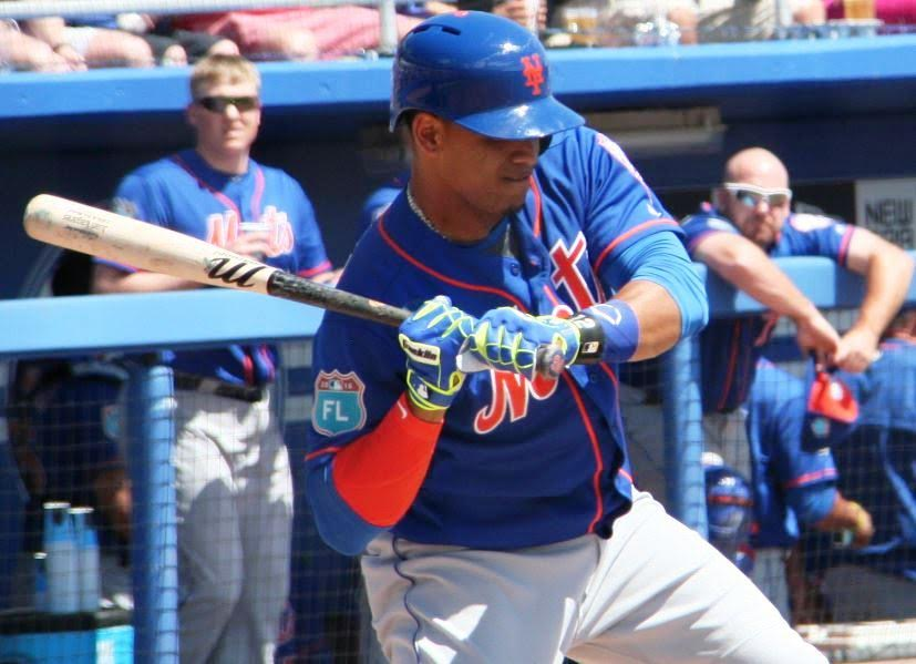 Juan Legares holding off on a pitch.